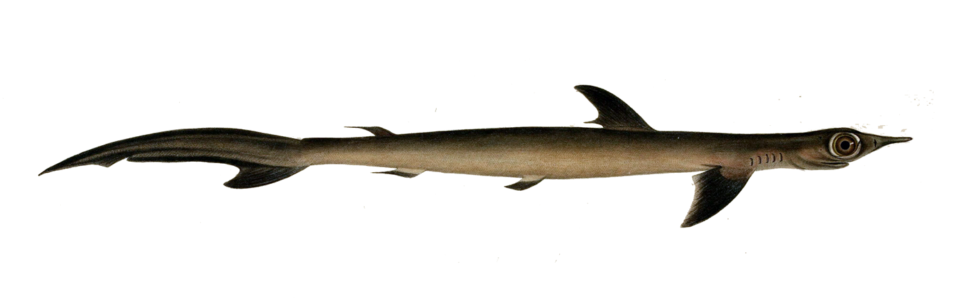 Loxodon macrorhinus